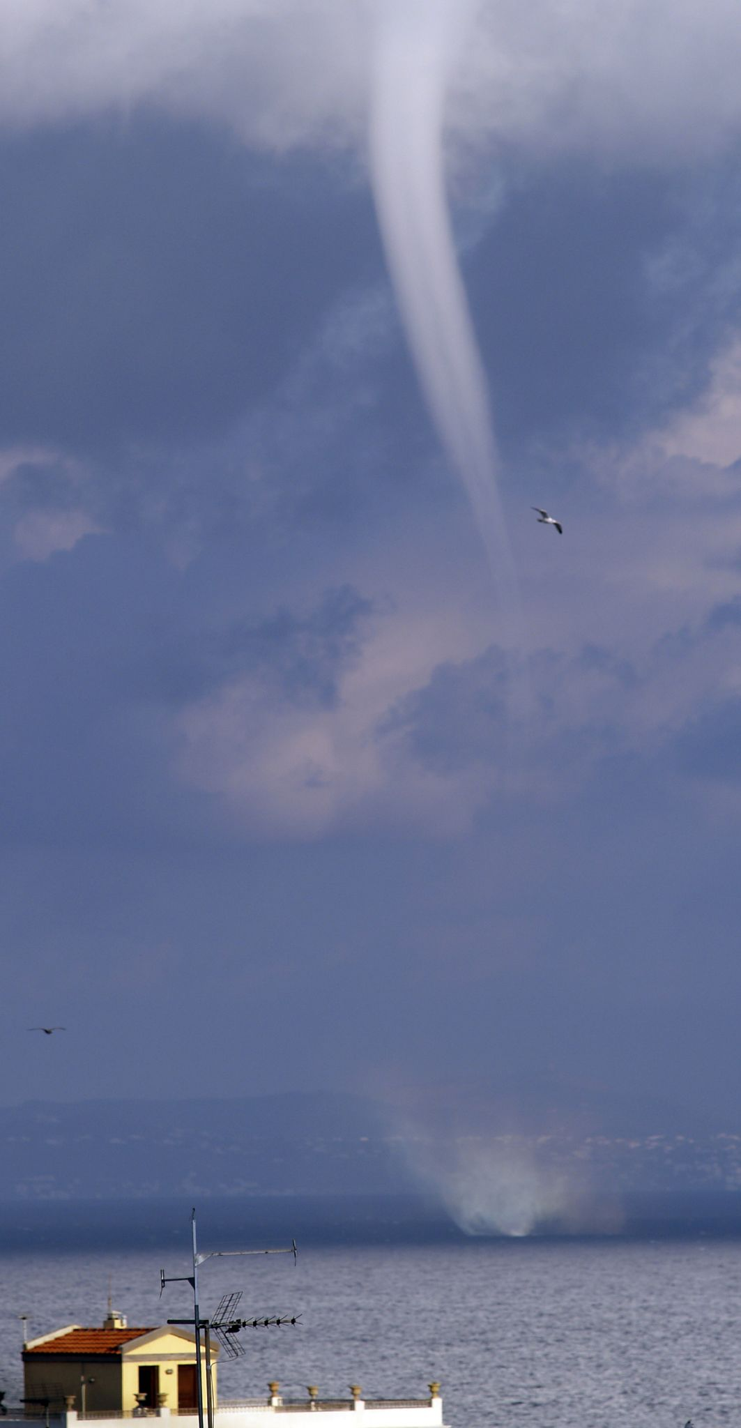 Waterspout between Syros and Mykonos